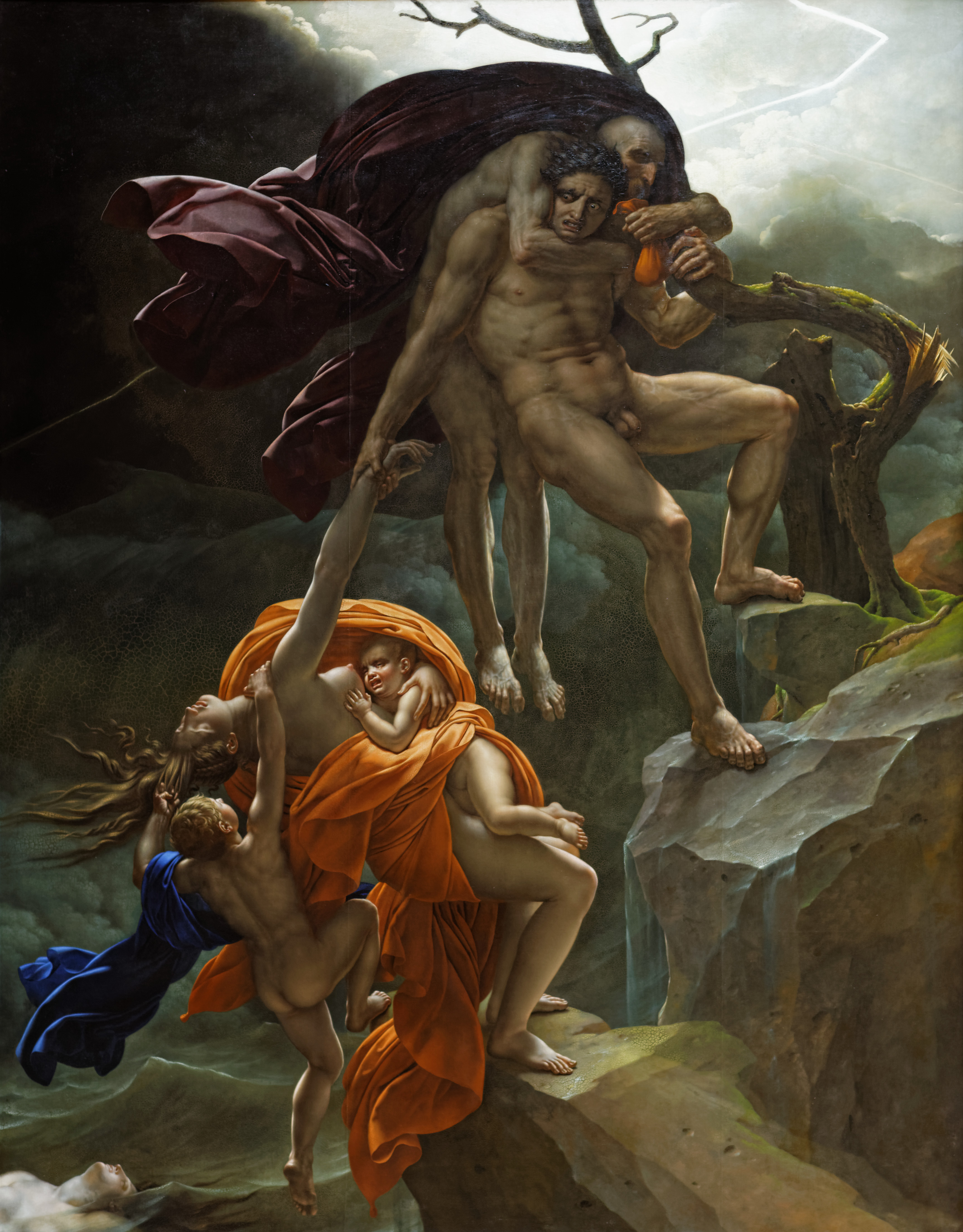 Sinister scene depicting a group of people trying to escape from a deluge.